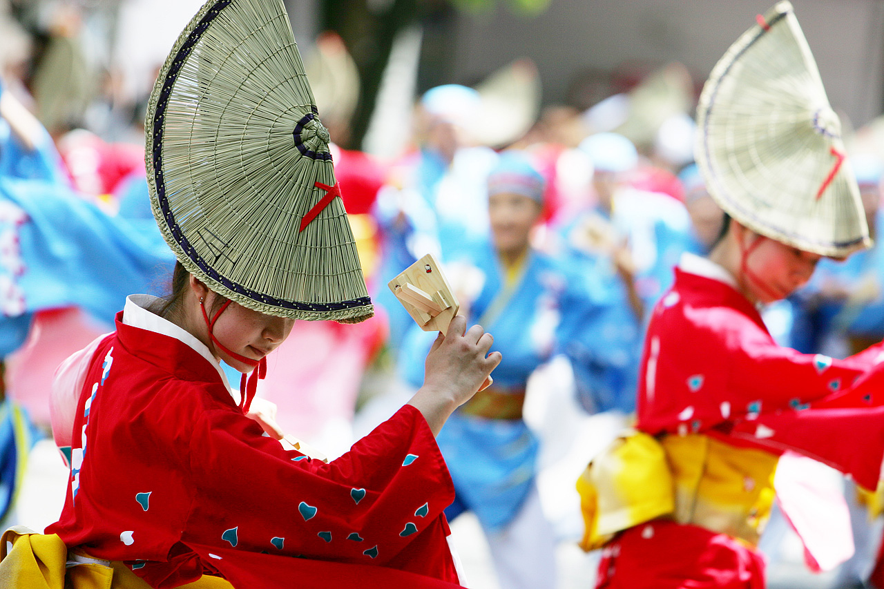 Kochi Yosakoi Festival 2006